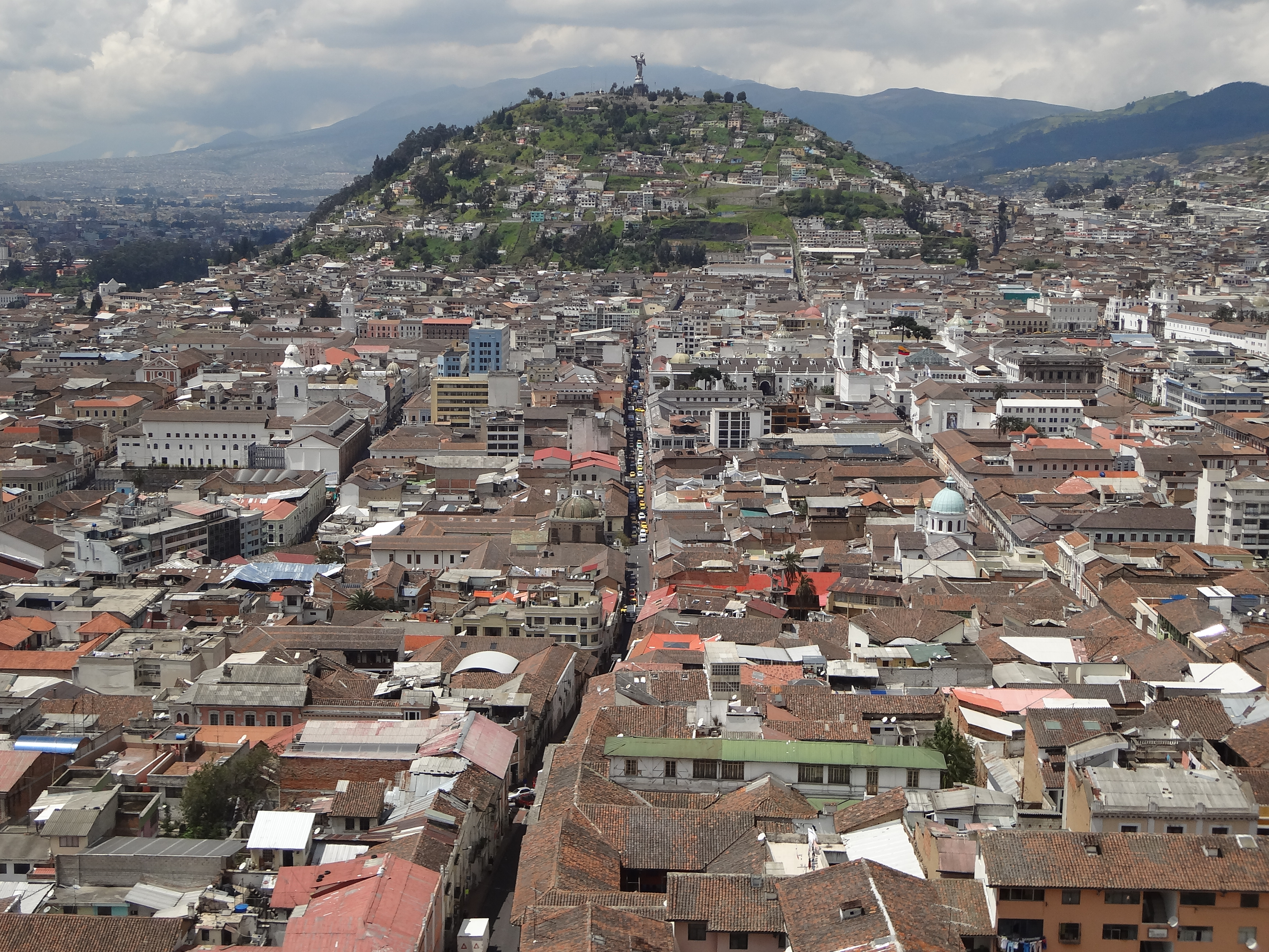 vista de Quito (La Basílica del Voto Nacional, Quito)